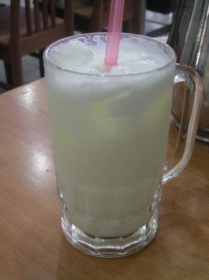 A glass of Lassi